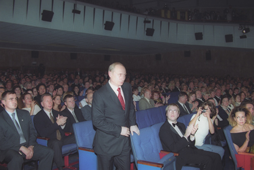 THE PUSHKIN CINEMA AND CONCERT HALL, MOSCOW. The closing ceremony of the 22nd Moscow International Film Festival.